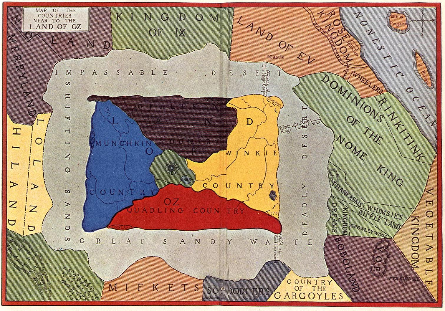 Map of Oz and the countries surrounding it across the deserts (East and West are reversed!)